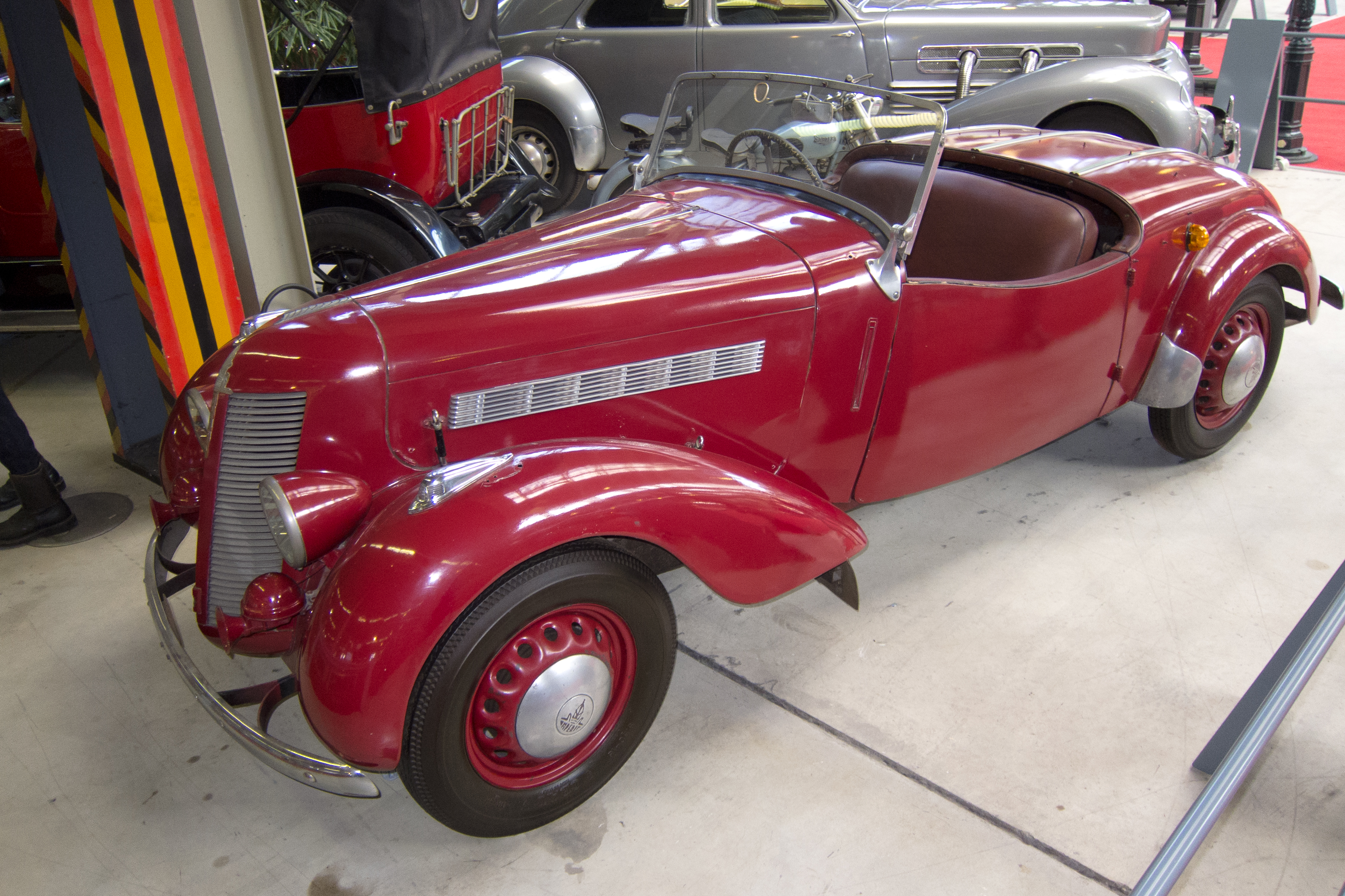 Imperia TA 8 (1948) at Autoworld Brussels, Belgium, 2011